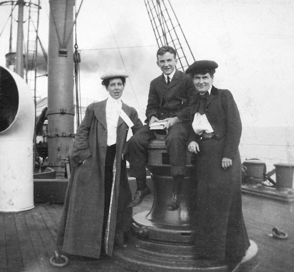 Philip L. and Helen Cather Southwick Collection, Archives and Special Collections, University of Nebraska–Lincoln Libraries. Isabelle McClung, an unidentified man, and Willa Cather aboard the SS Westernland, 1902